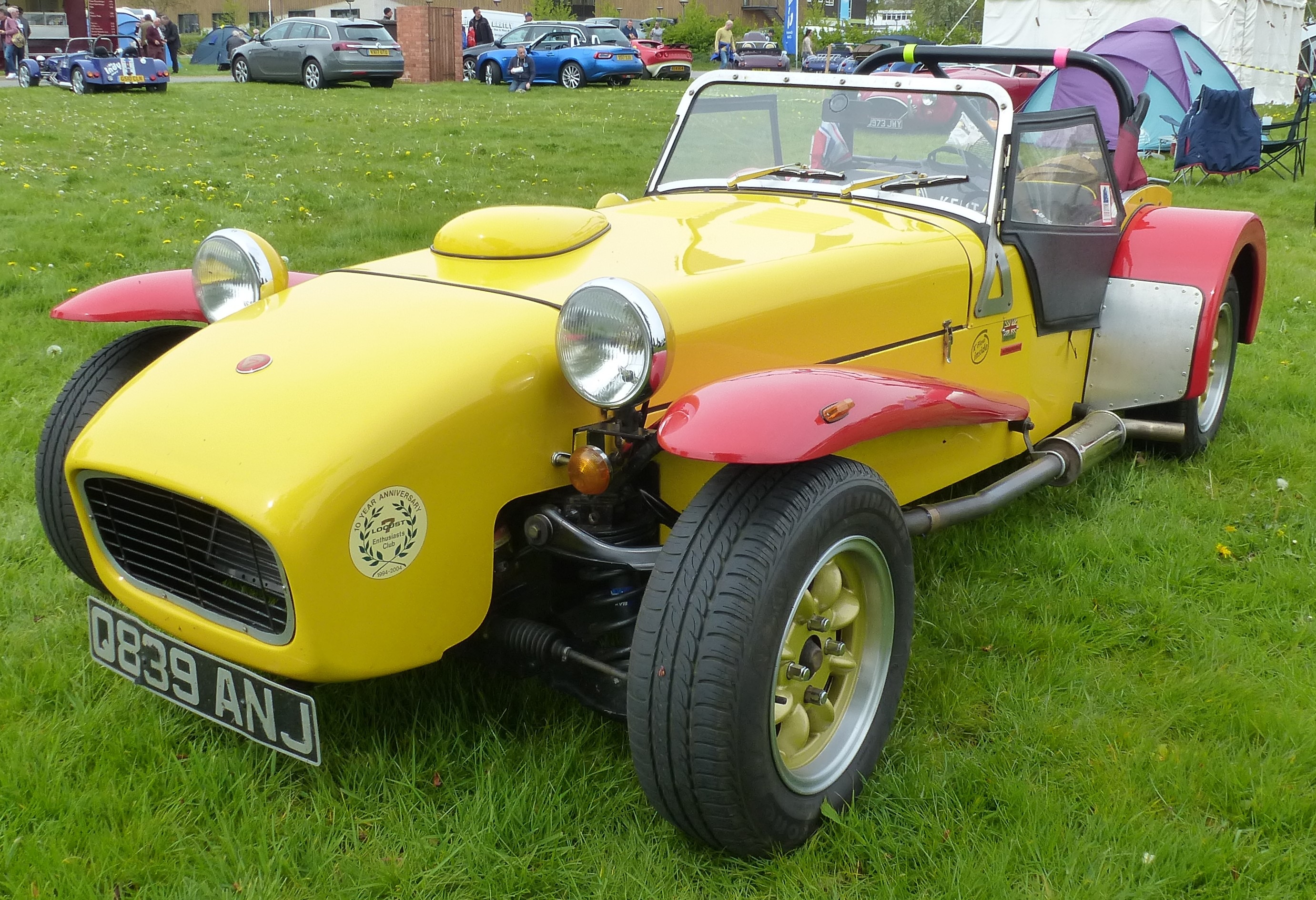 T & J Locust